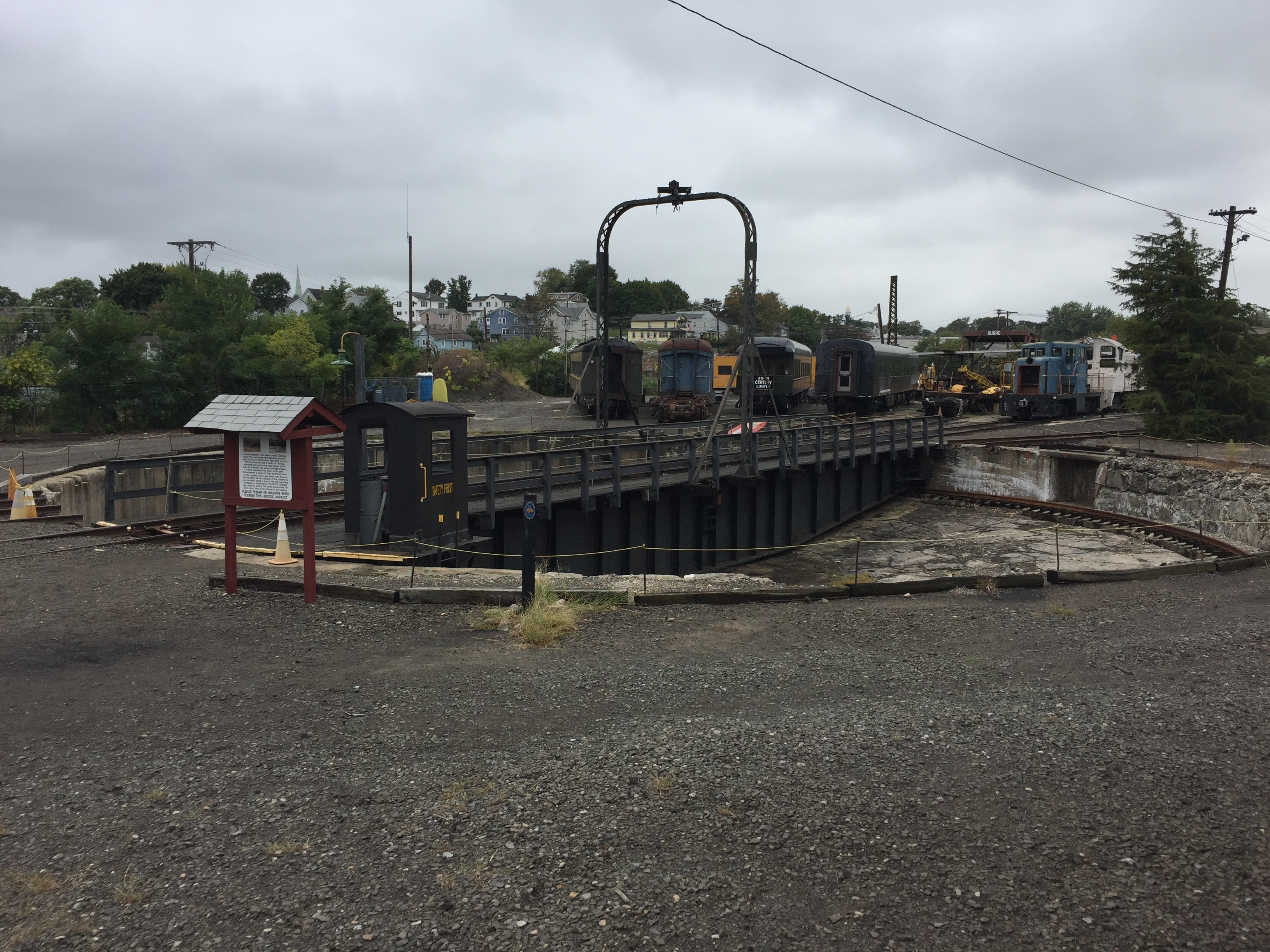 The turntable in the railway yard was used to turn the steam engines around, or allow them into the maintenance building. It was built around 1914.